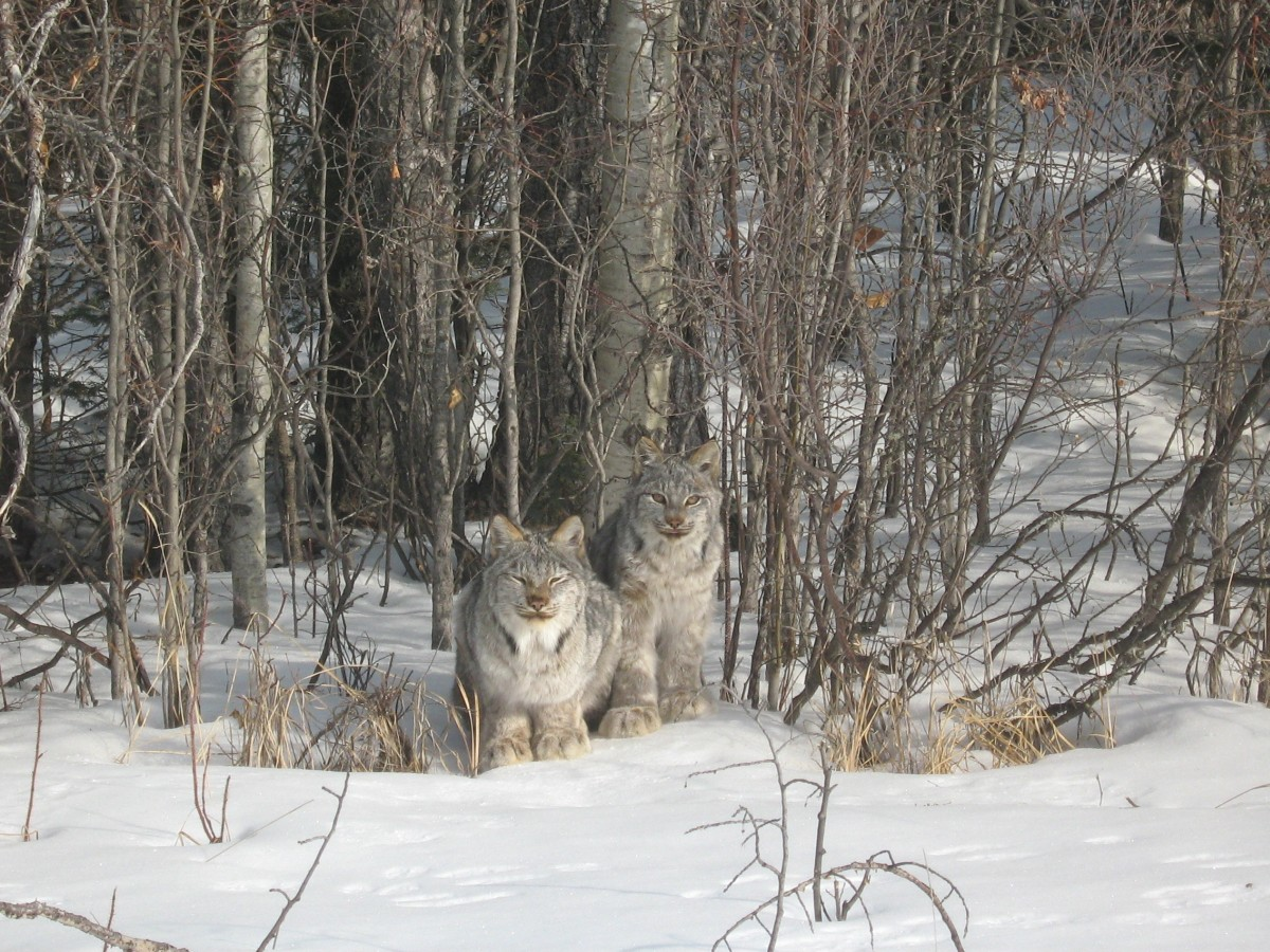 Young Lynx spotted west of Drayton Valley Ab